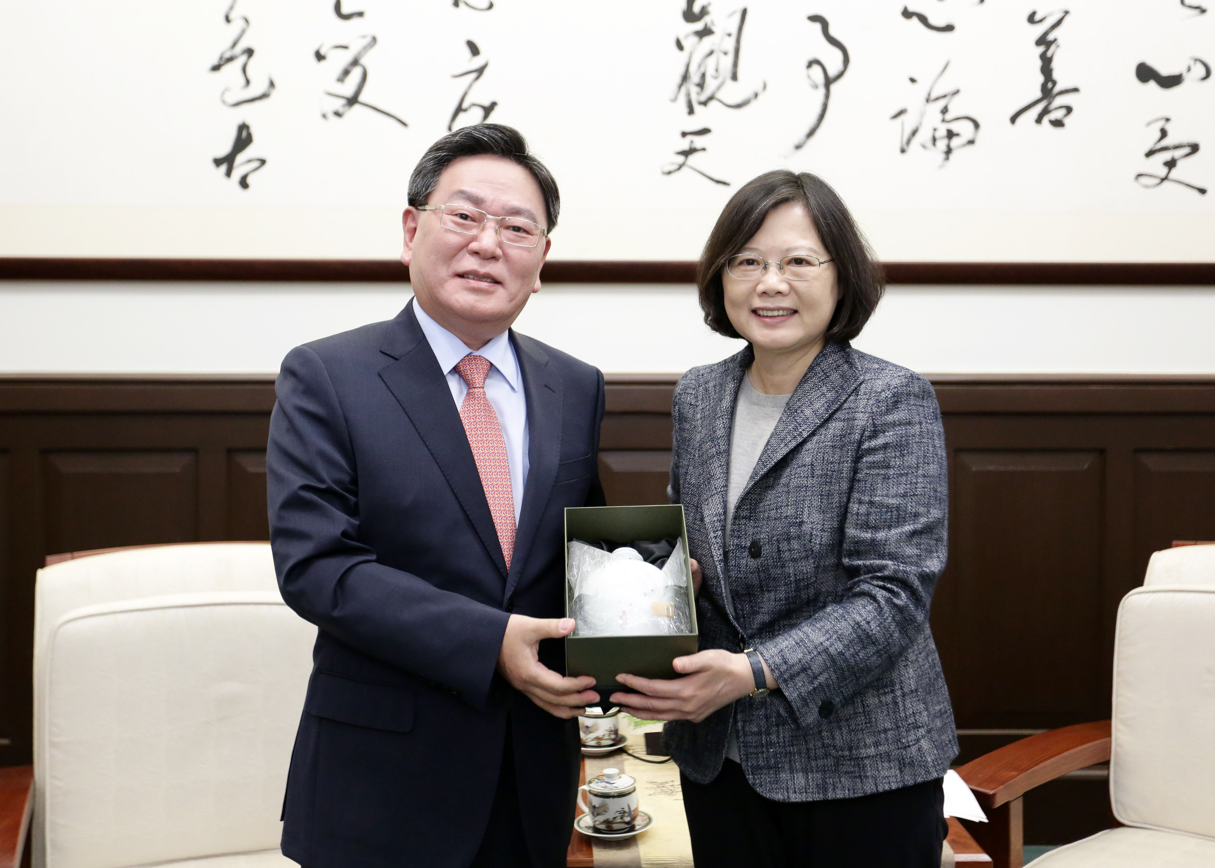 President [Tsai Ing-wen] exchanged presents with Yang Chang-soo, newly-appointed Representative of the Korean Mission in Taipei, during the meeting on 22 December.